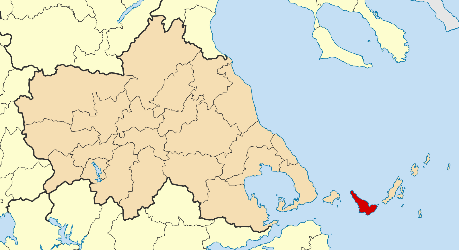 Locator map for Skopelos municipality in Greek region Thessaly (2011)